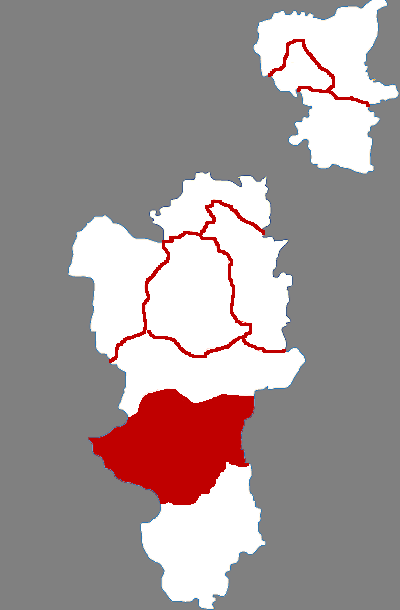 Location of Wen'an county in Langfang City, China